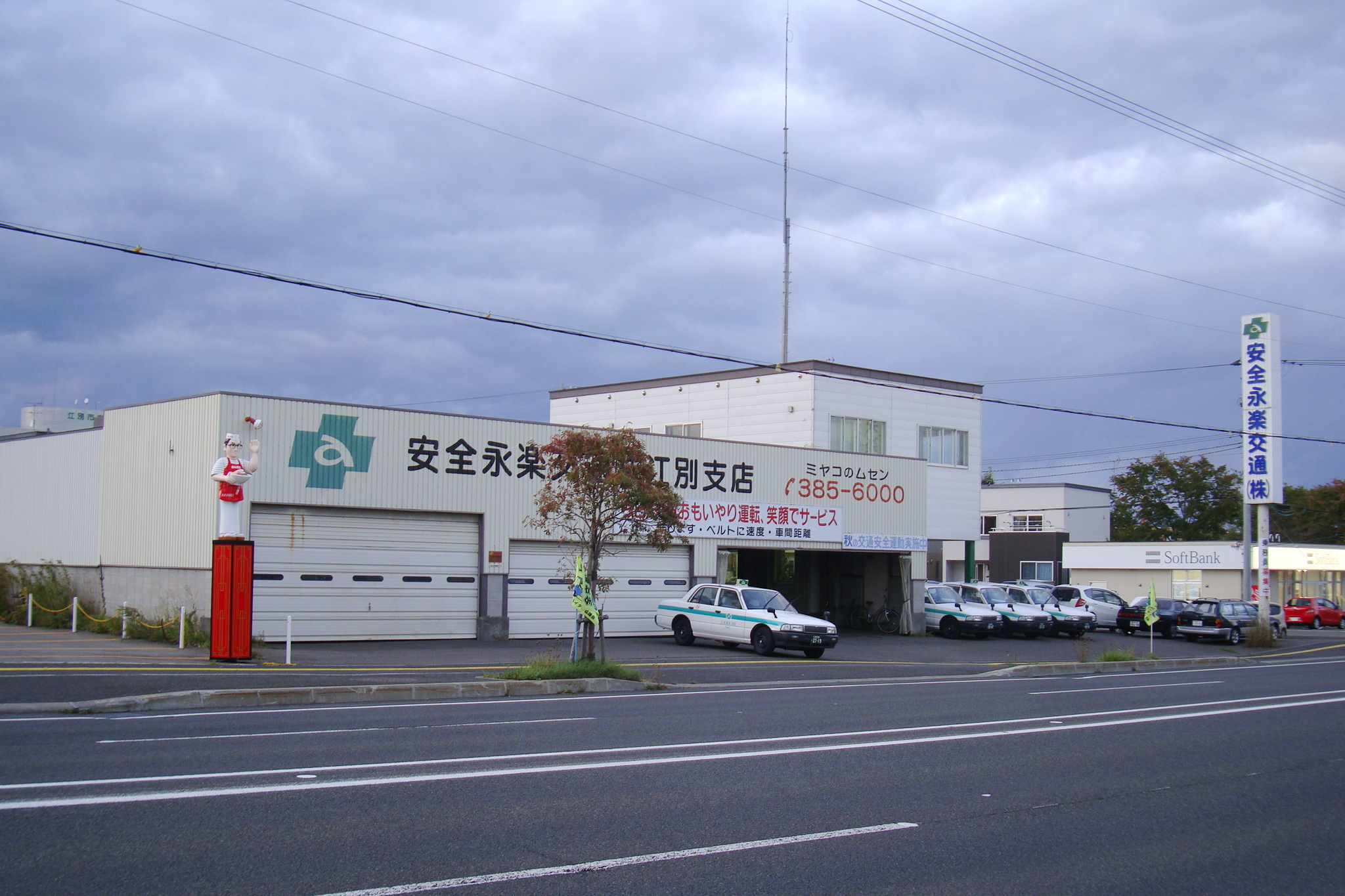 Anzen Eiraku Kōtsū Ebetsu depot